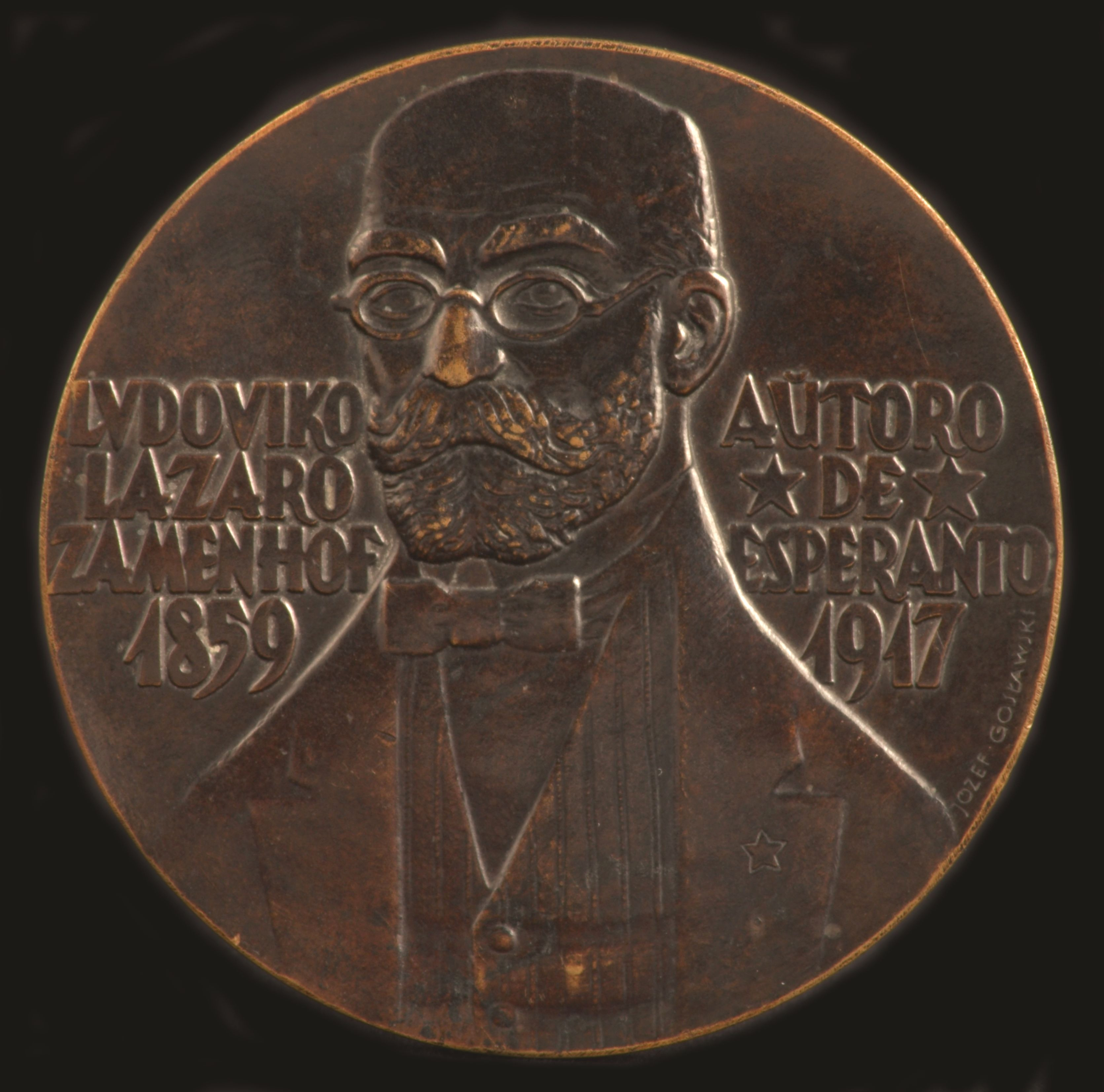 Obverse of medal with L. L. Zamenhof (Ludwik Lejzer, Ludwik Łazarz) Zamenhof, designed by Józef Gosławski in 1959.